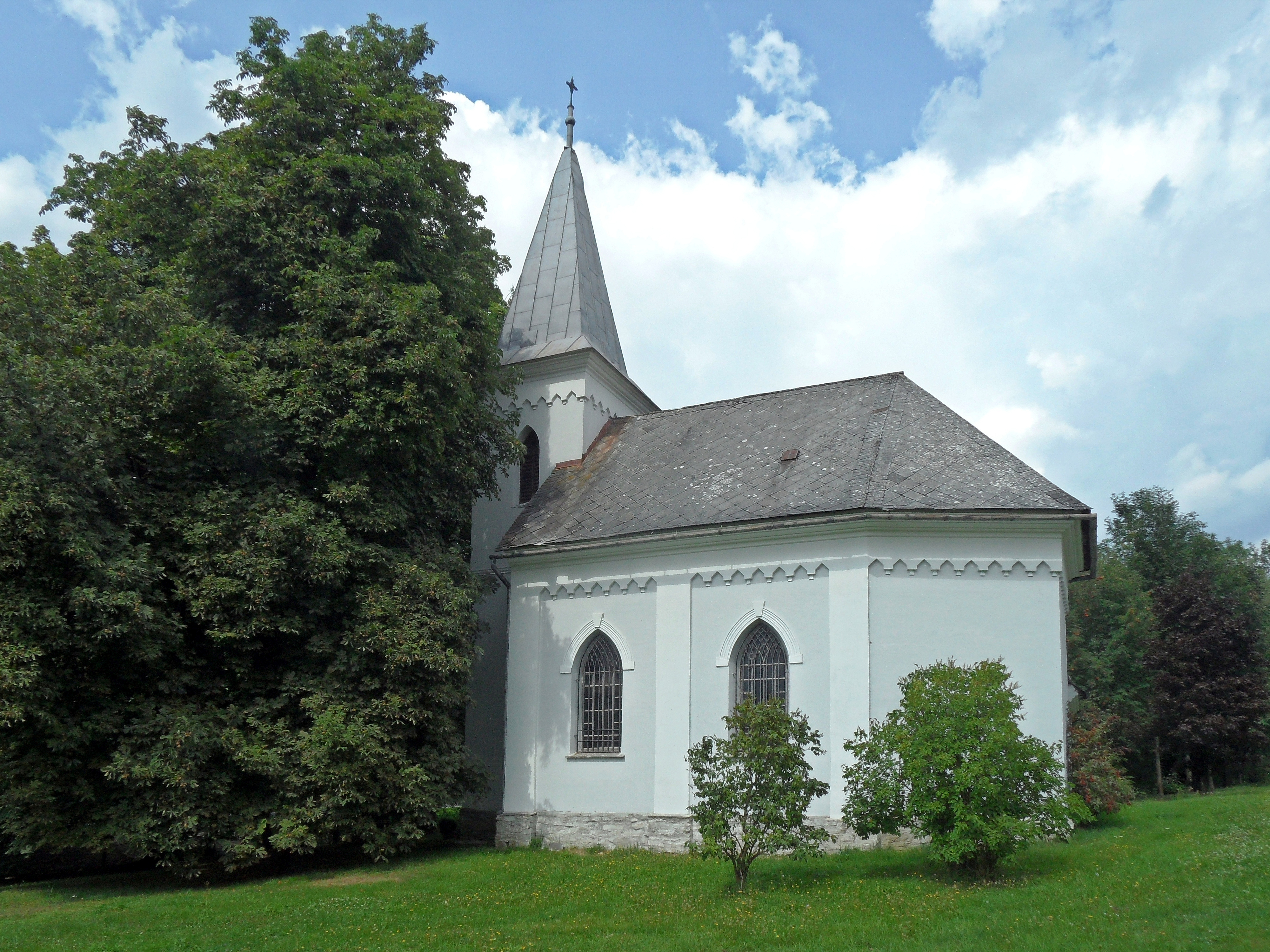 Šléglov: Chapel in the Centre of the Village: Overview from North. Šumperk District, the Czech Republic